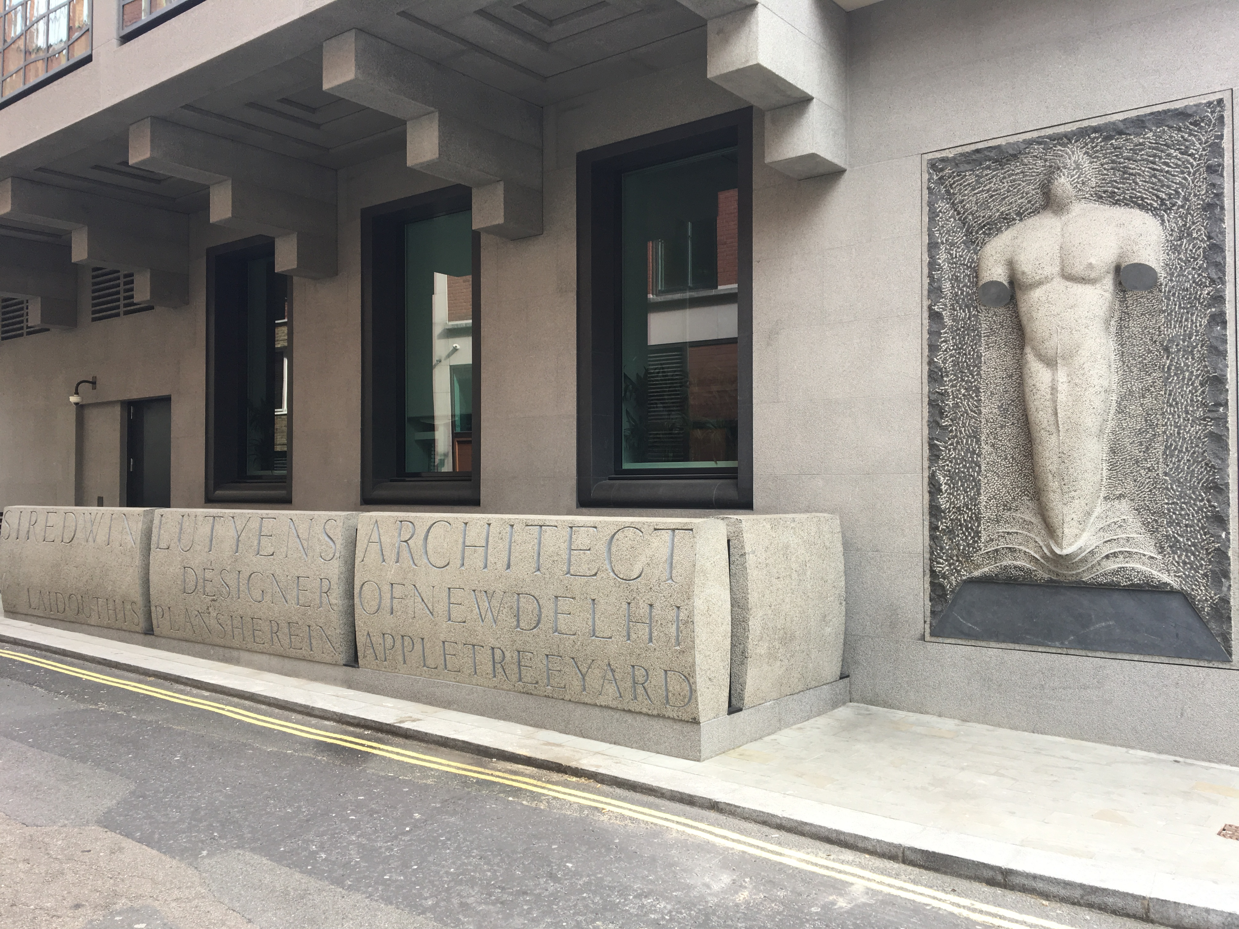 Edwin Lutyens memorial